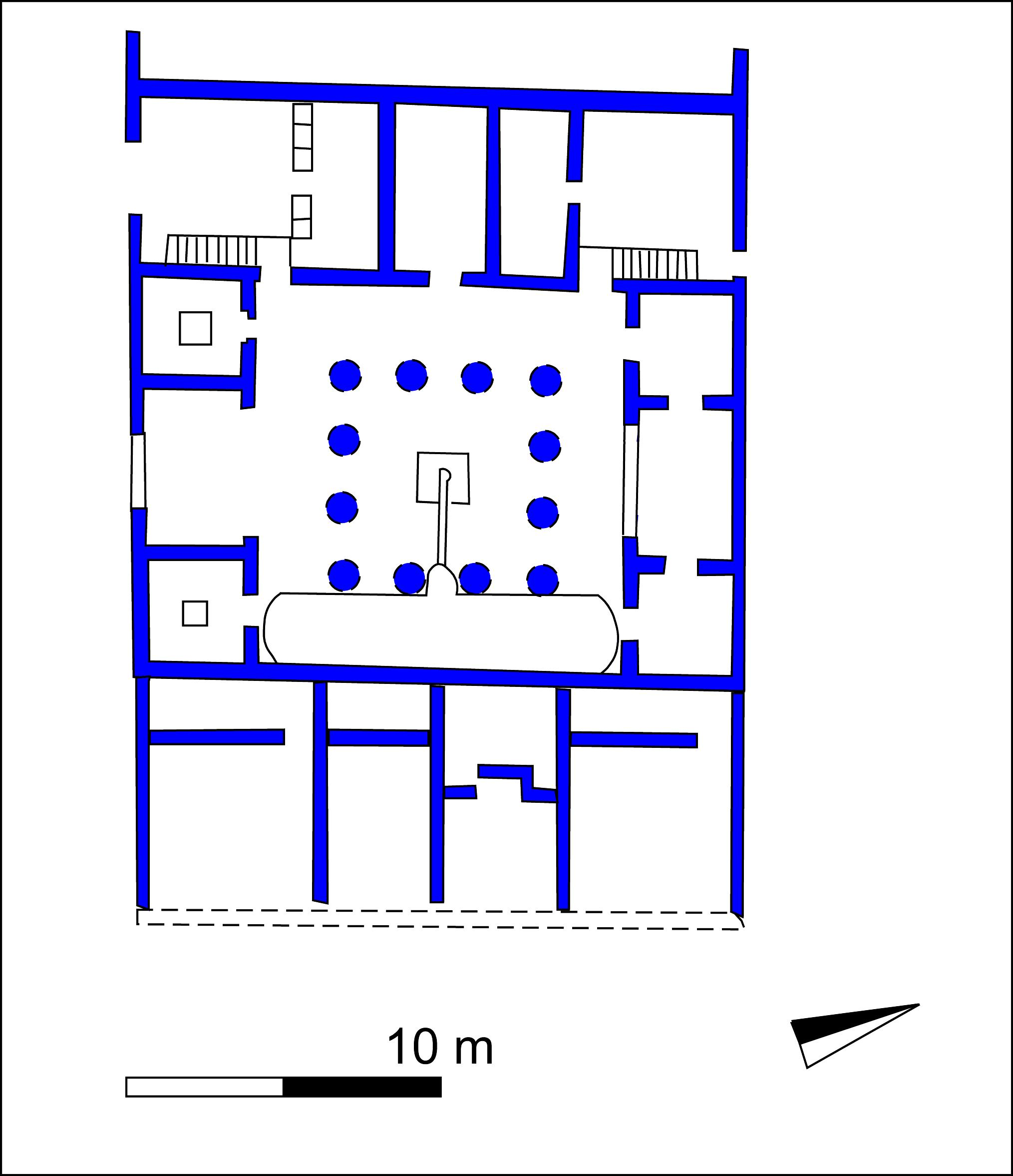 Solunto, Casa di Leda, plan